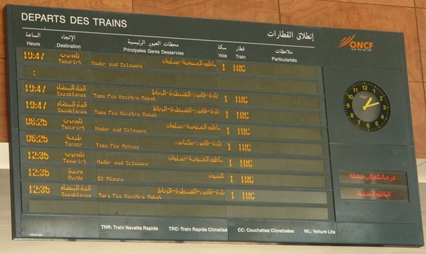 Departure sign at Nador Ville railway station